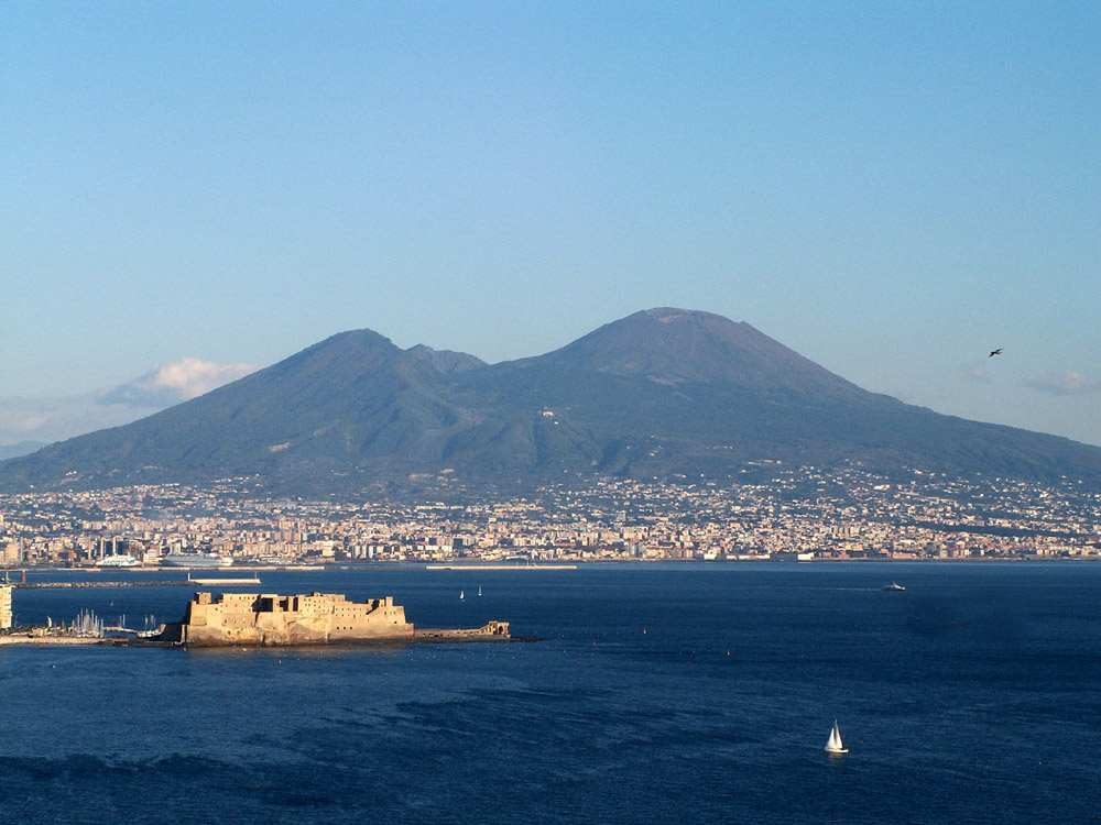 Private photo taken and uploaded by user Jeffmatt 08:11, 5 November 2006 (UTC)